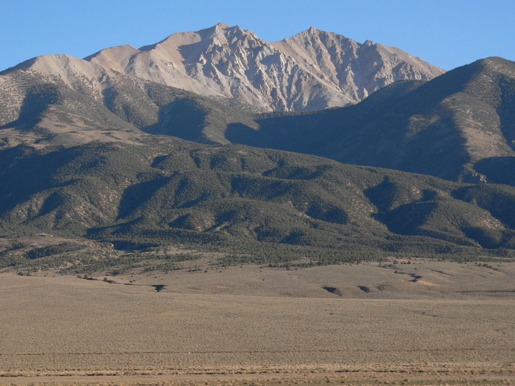 Boundary Peak in Nevada, USA as seen from Benton, California